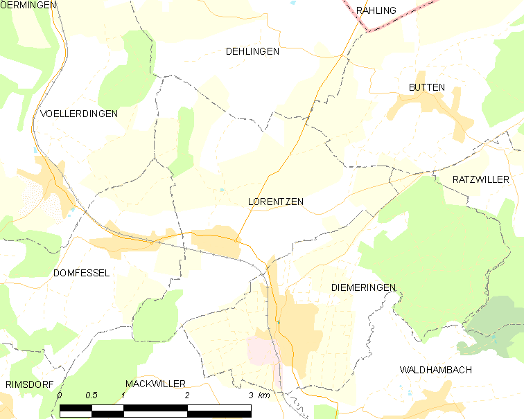 Map of French municipality